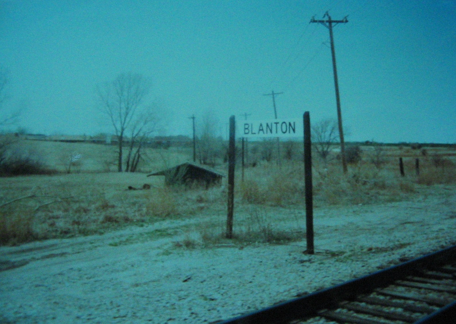 Blanton Oklahoma Railroad stop in the 1990s, just outside of Country Club North housing in Enid, Oklahoma.